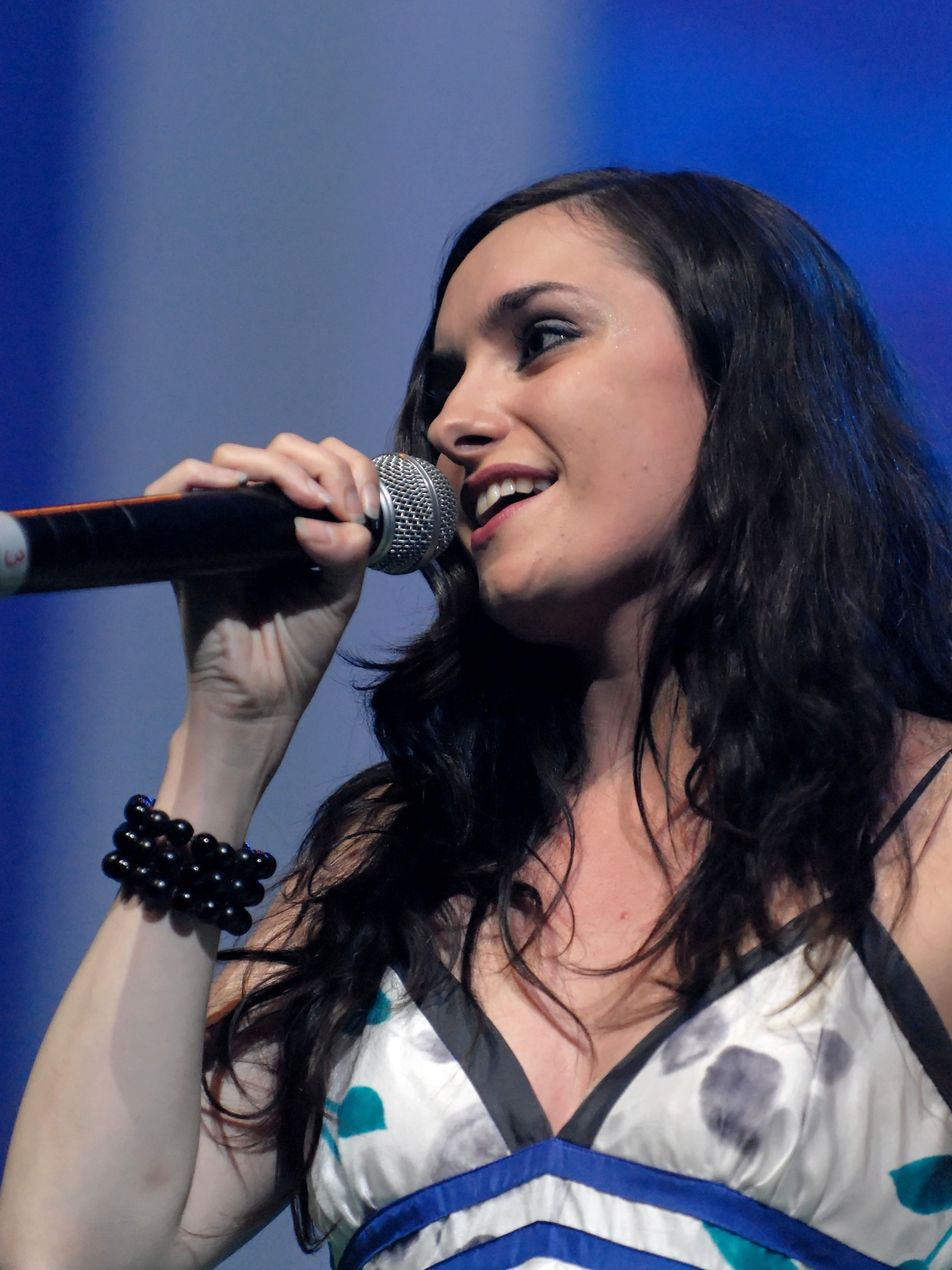 Joana from the french group “L'Homme parle” singing at the closing rally of Europe Écologie at the Zenith in Paris, on June, 3 2009. Campaign for the 2009 European elections in France.